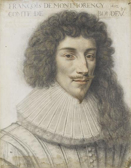 Portrait of François de Montmorency-Bouteville